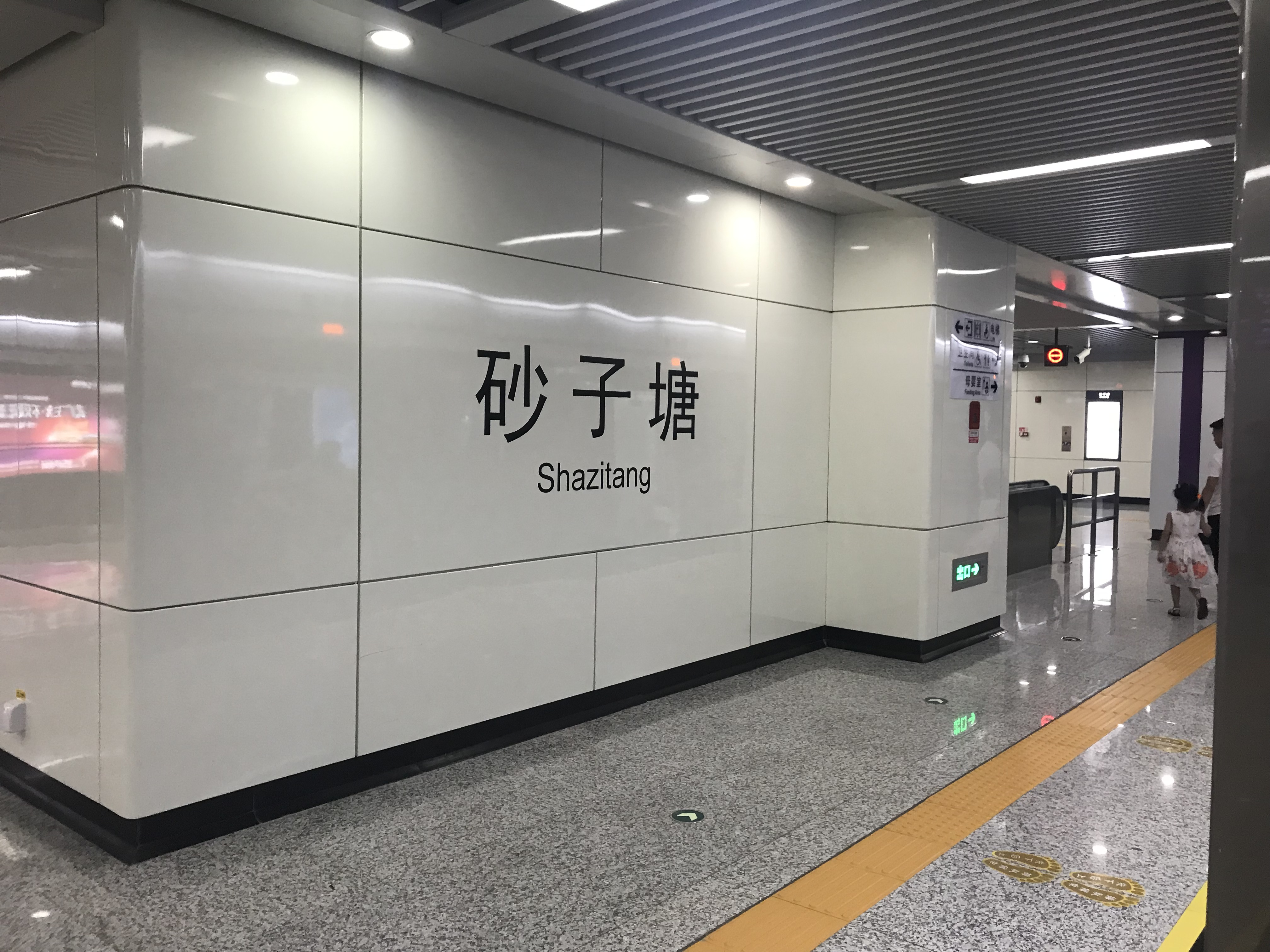 A station full of Sugar?